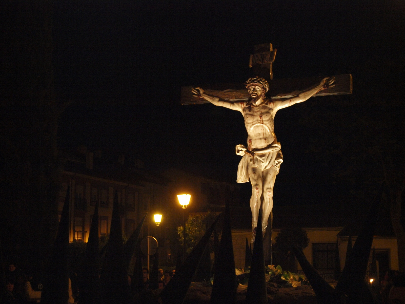 Procession of the religious brotherhood Hermandad Penitencial de las Siete Palabras, Zamora, Spain, Holy Week 2014